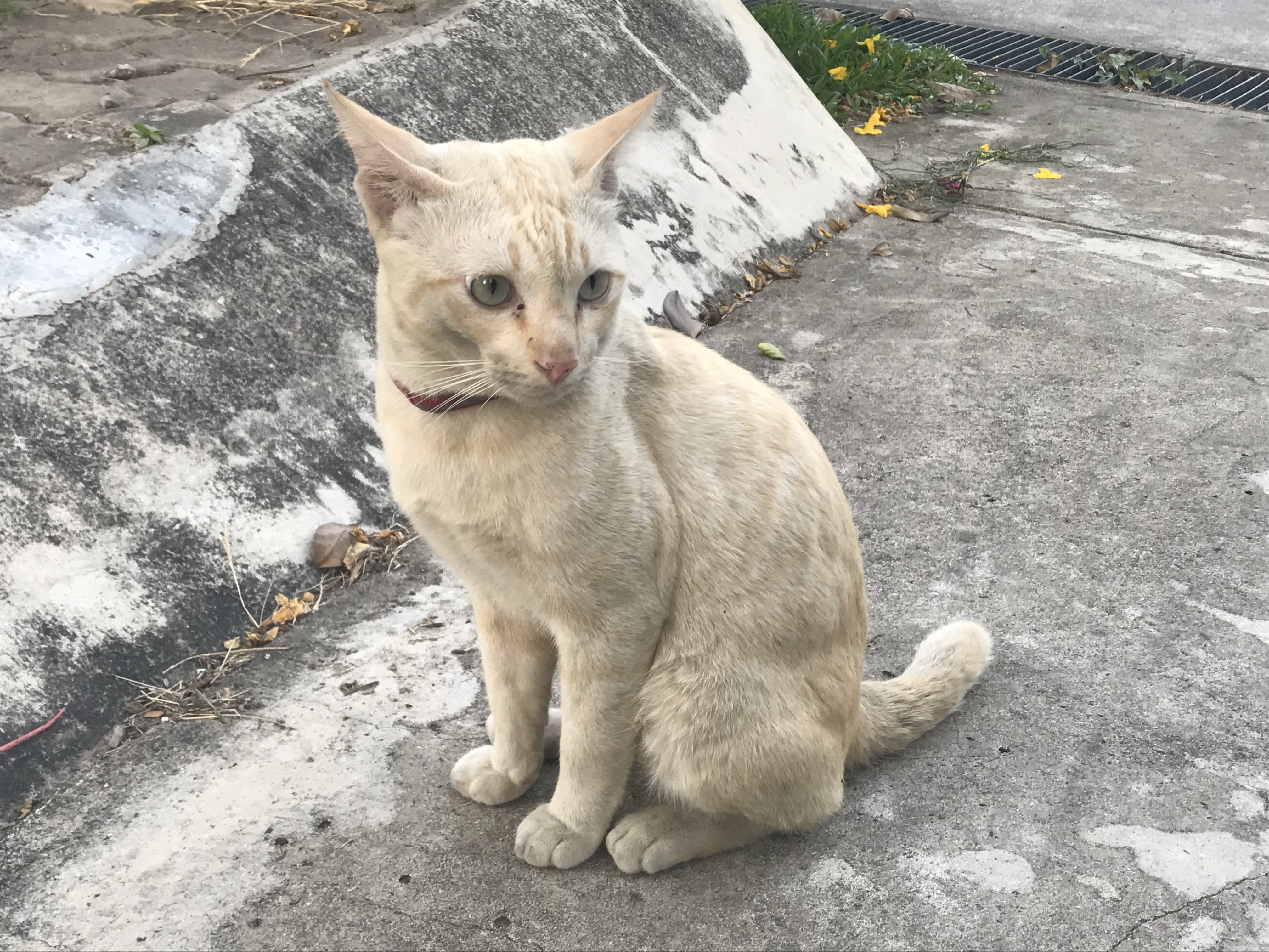 Beige cat in Chulalongkorn University, Thailand